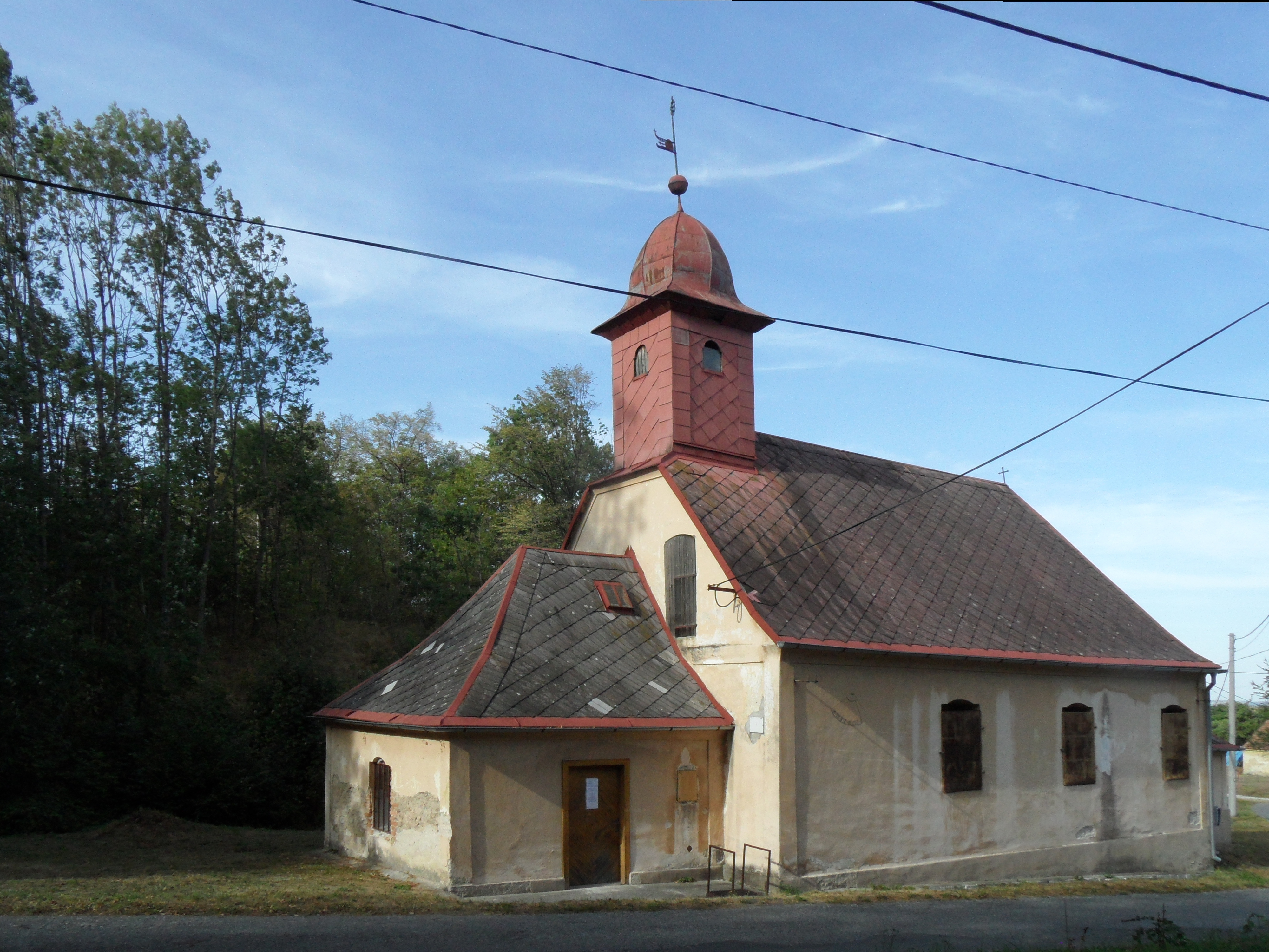 Horní Hoštice B. Church of Saint John of Nepomuk / of Saint John Sarkander. View from West-South-West. Jeseník District, the Czech Republic.